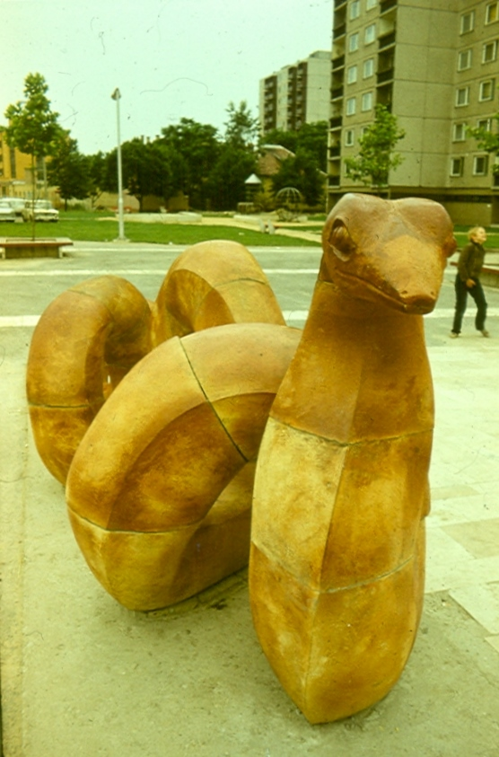 Ilona Benkő: Snake (an outdoor sculpture)